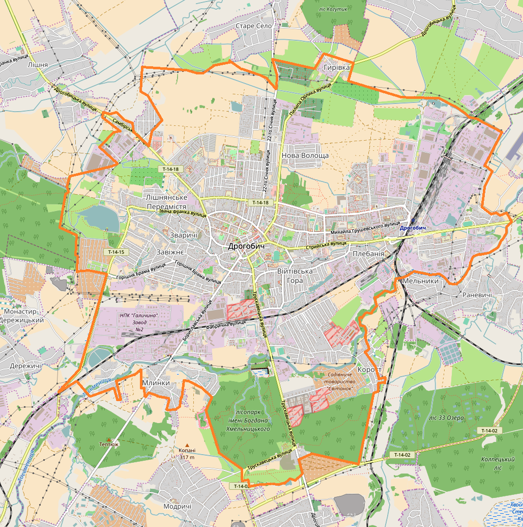 Location map